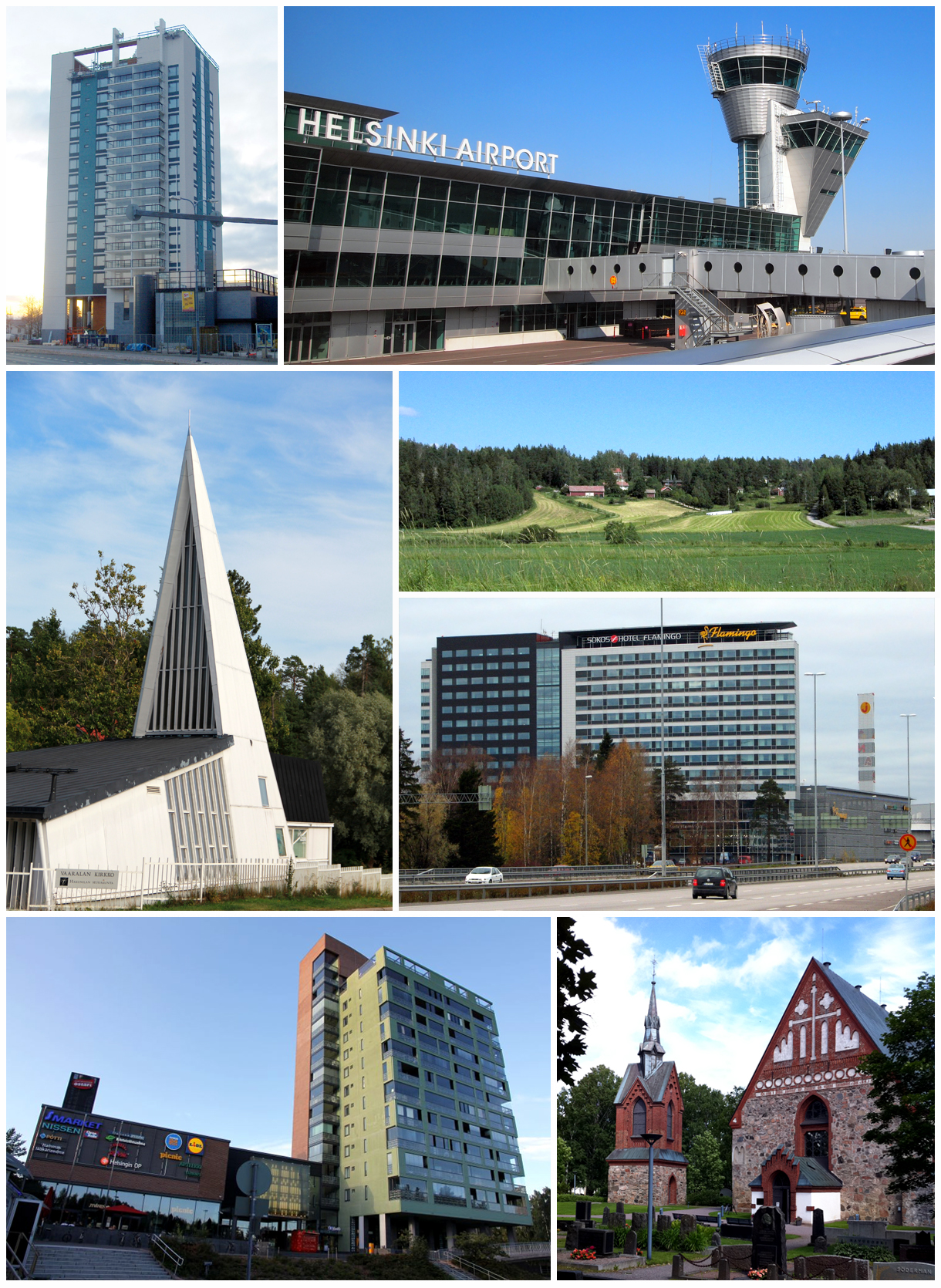 A montage of the city of Vantaa, Finland. Includes pictures of Kielotorni, the Helsinki-Vantaa Airport (